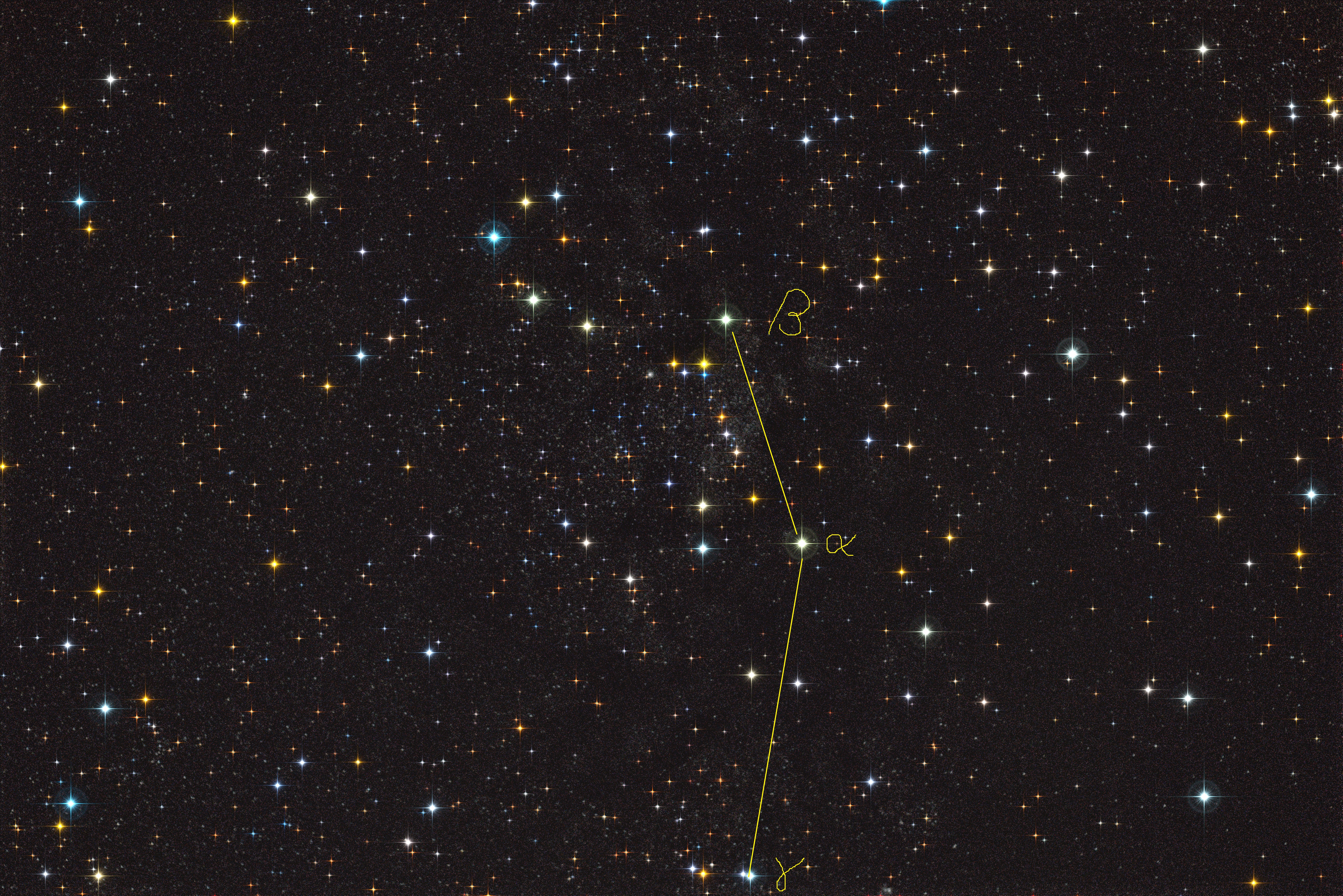 The constellation Scutum, with the three brightest stars labelled.